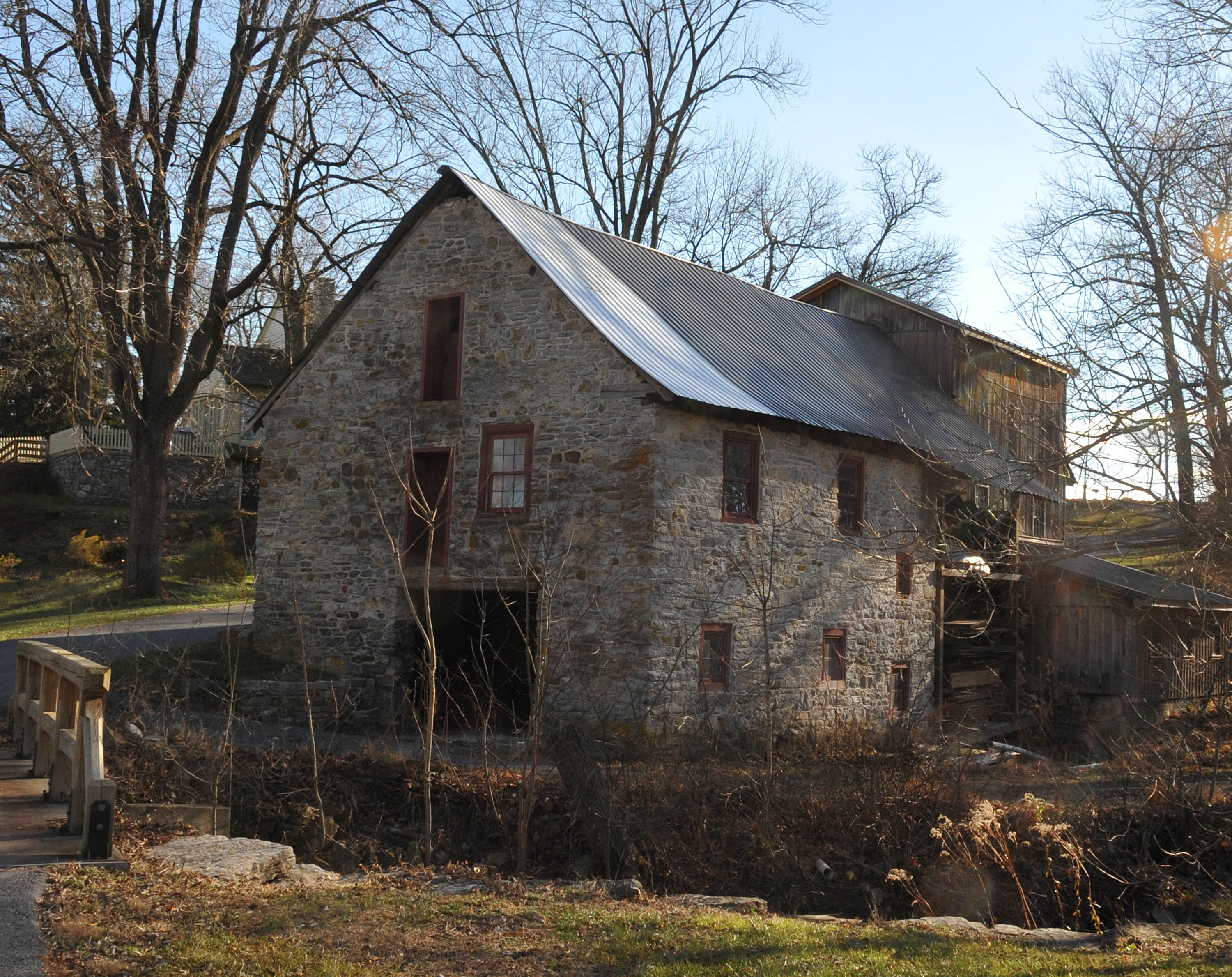 BUILT 1780 ALONG MONOCACY CREEK; MILL CEASED OPERATIONS IN 1930.